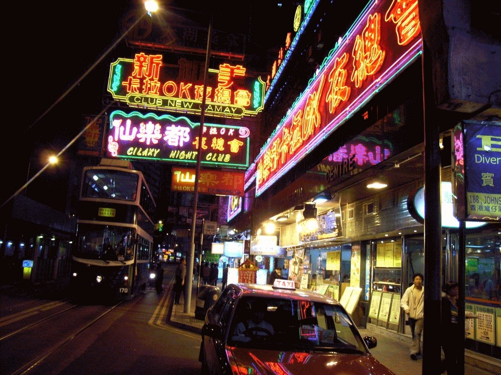 Johnston Road, Wan Chai, Hong Kong 莊士敦道是香港島zh:灣仔區的一條東西交通幹線之一